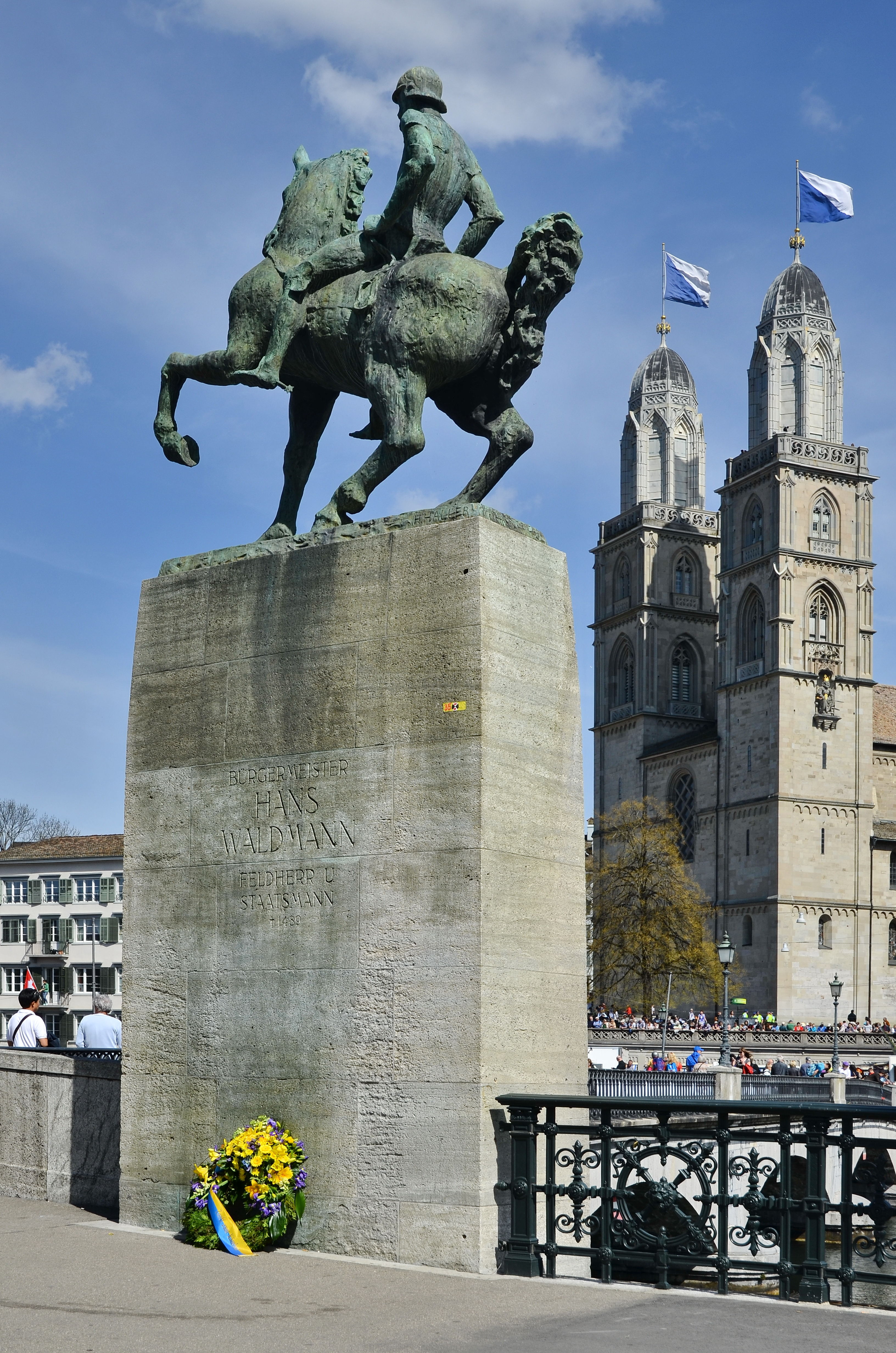 Equestrian statue of Hans Waldmann (* 1435; † 1489) at Münsterbrücke respectively Münsterhof in Zürich (Switzerland) : Wreath-laying ceremony by the members of the Kämbel guild on occasion of Sechseläuten.